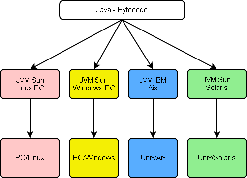 Schema of the general architecture of a program running in a Java Virtual Machine